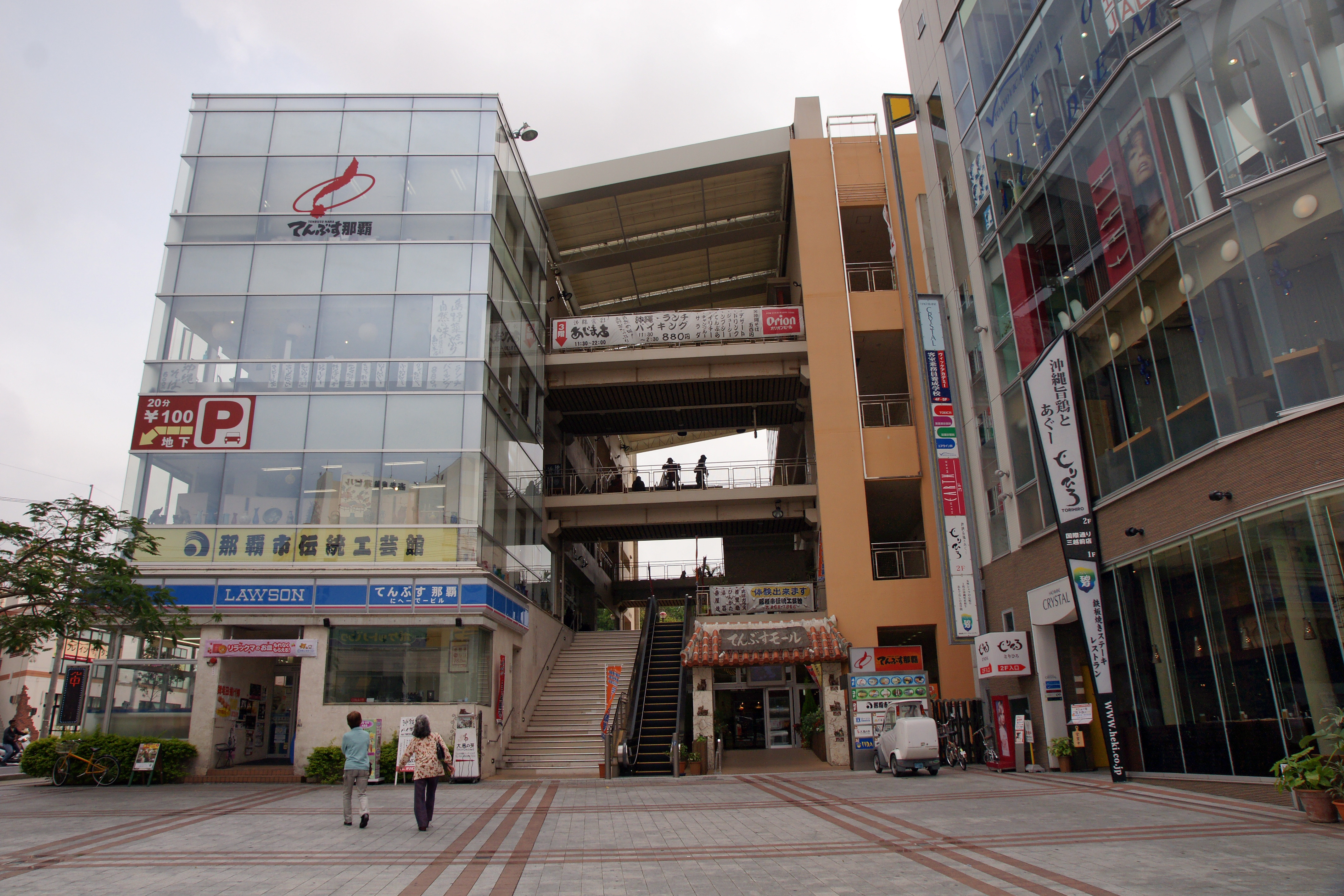 Tenbusu Naha in Kokusai-dori (Kokusai street), Naha, Okinawa prefecture, Japan